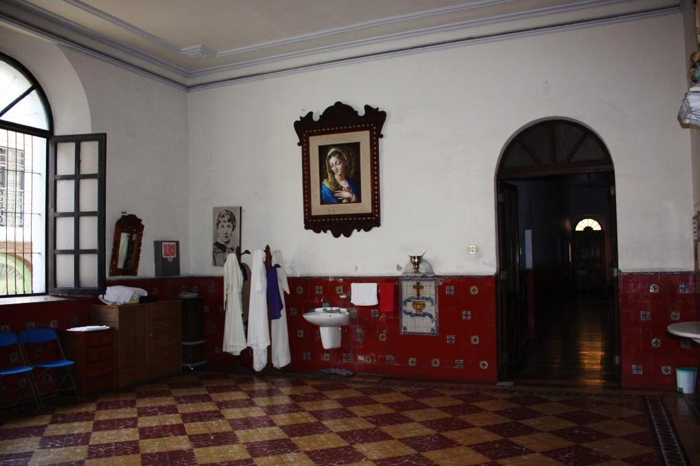 Our Lord of Calvary Church, Orizaba, Veracruz state, Mexico